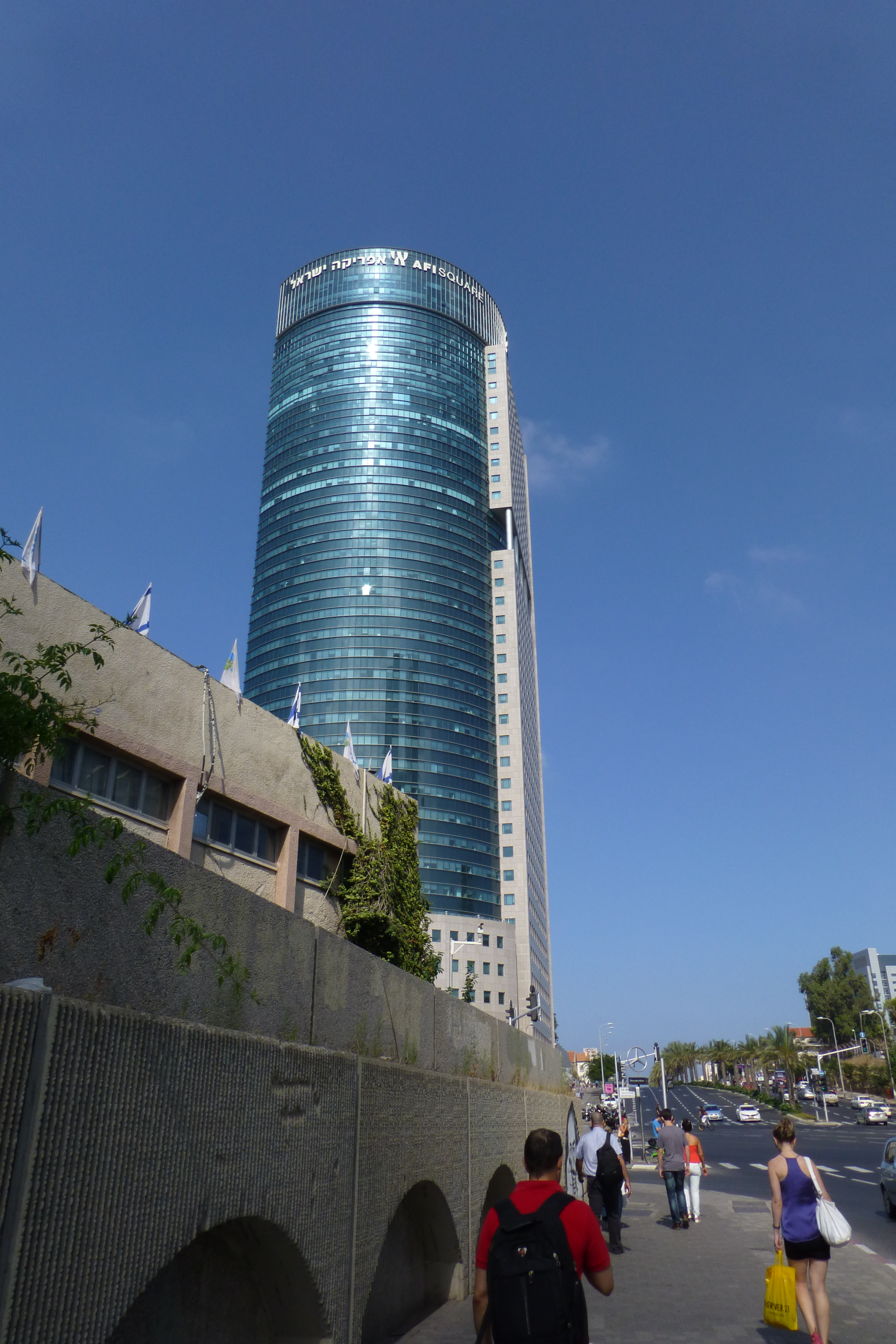 Migdal HaKiriya